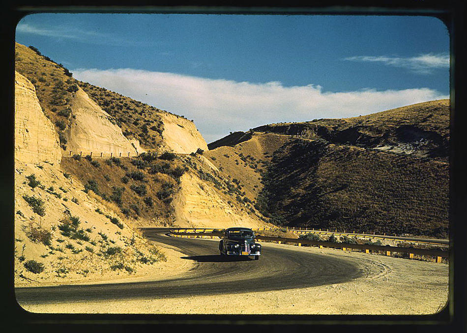 Road cut into the barren hills which lead into Emmett. Emmett, Idaho, July 1941.